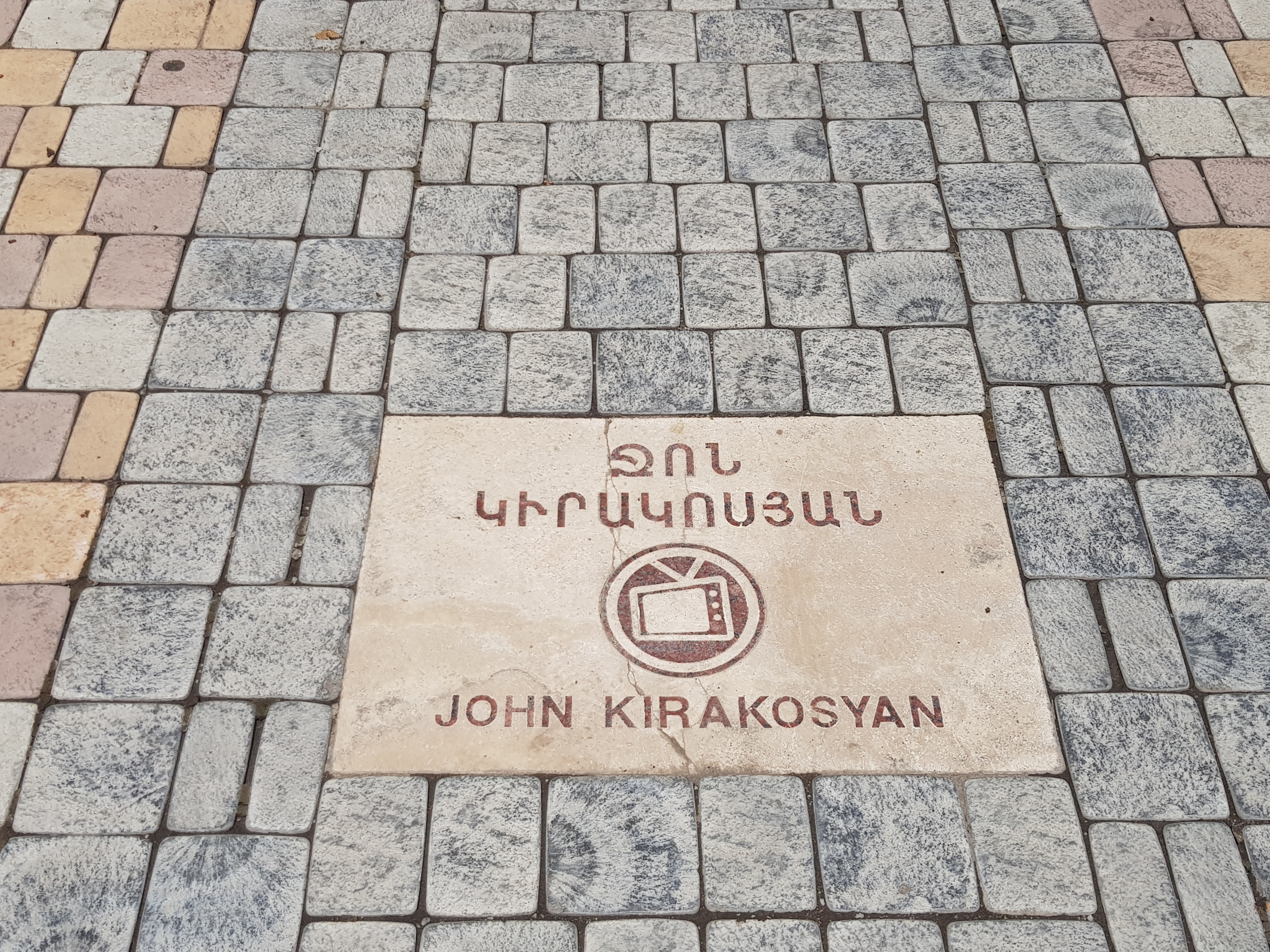 Alley of Devotees, Yerevan